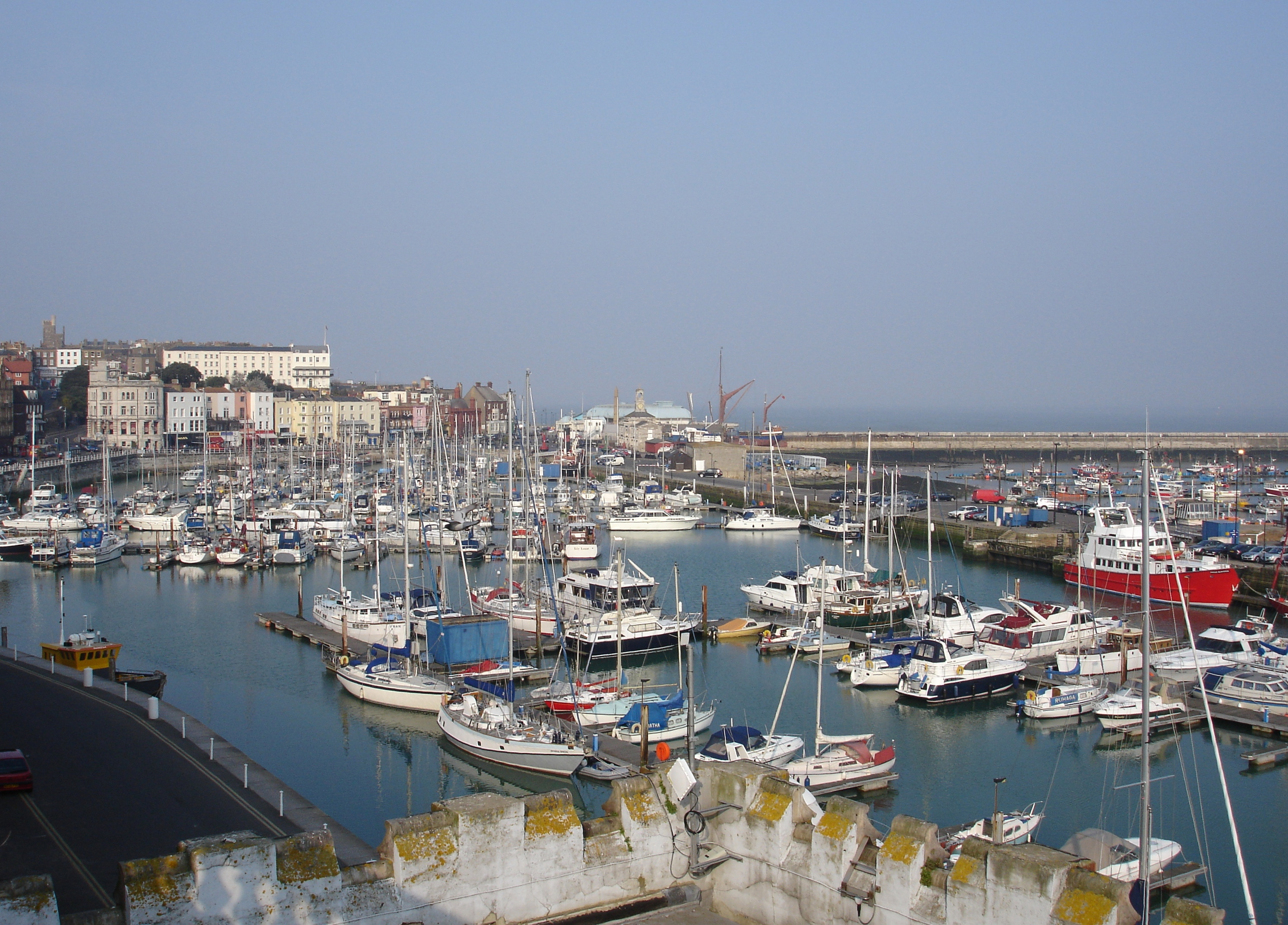 Ramsgate, Kent, UK, seen from the west cliff. Taken 16 April 2007.